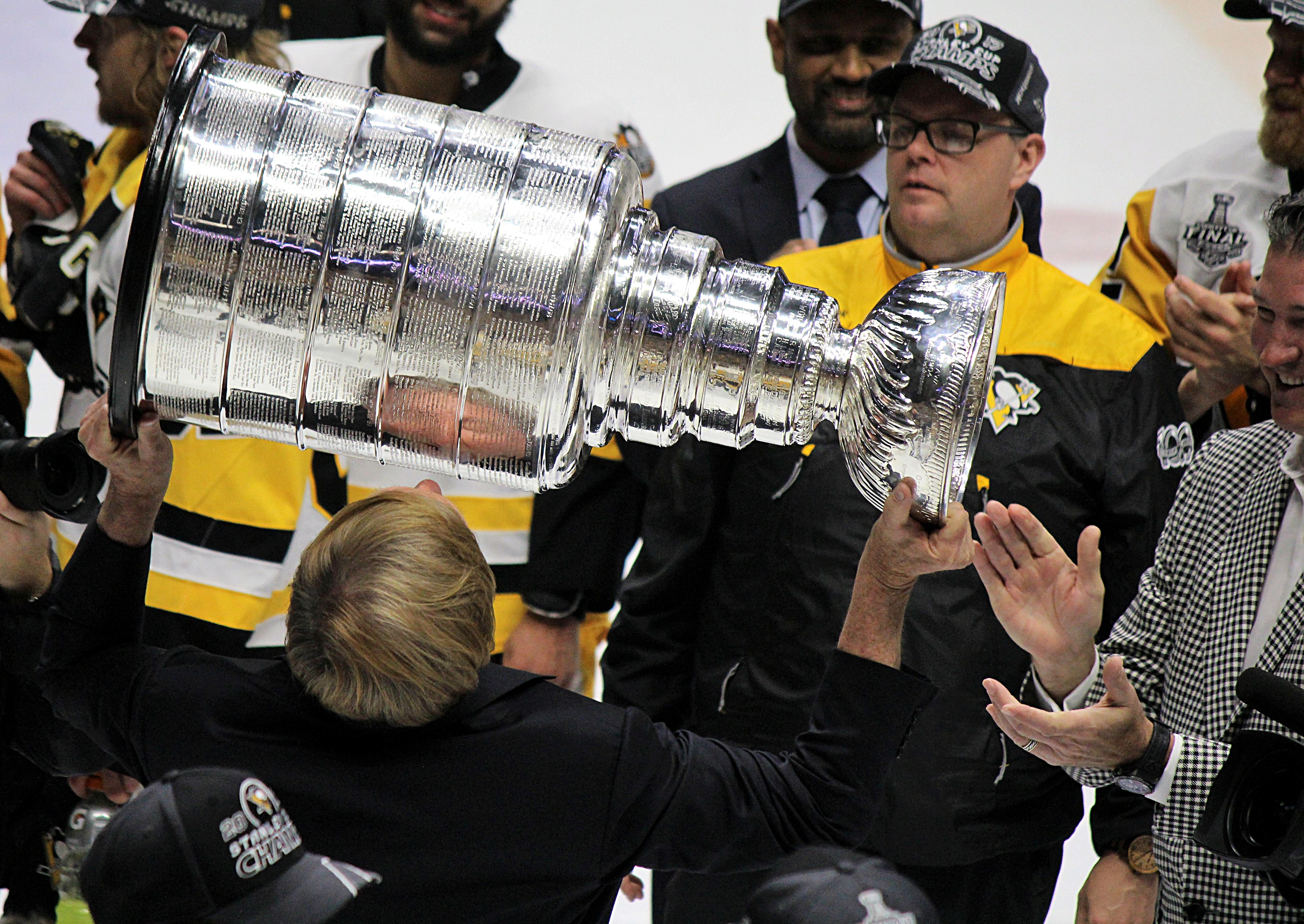 Pittsburgh Penguins co-owner Ron Burkle celebrating the team's fifth Stanley Cup win, June 11, 2017, at Bridgestone Arena in Nashville, TN. Co-owner Mario Lemieux looks on.